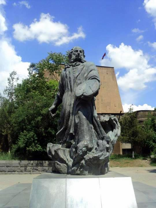 Հովհաննես Այվազովսկի-Հեղինակ`Յուրի Պետրոսյան, Ճարտարապետ`Ս. Քյուրքչյան, Բրոնզ և գրանիտ Տեղադրման տարեթիվ - 2003 Գտնվում է Օղակաձև այգում՝ Կամերային երաժշտության տան մոտ։